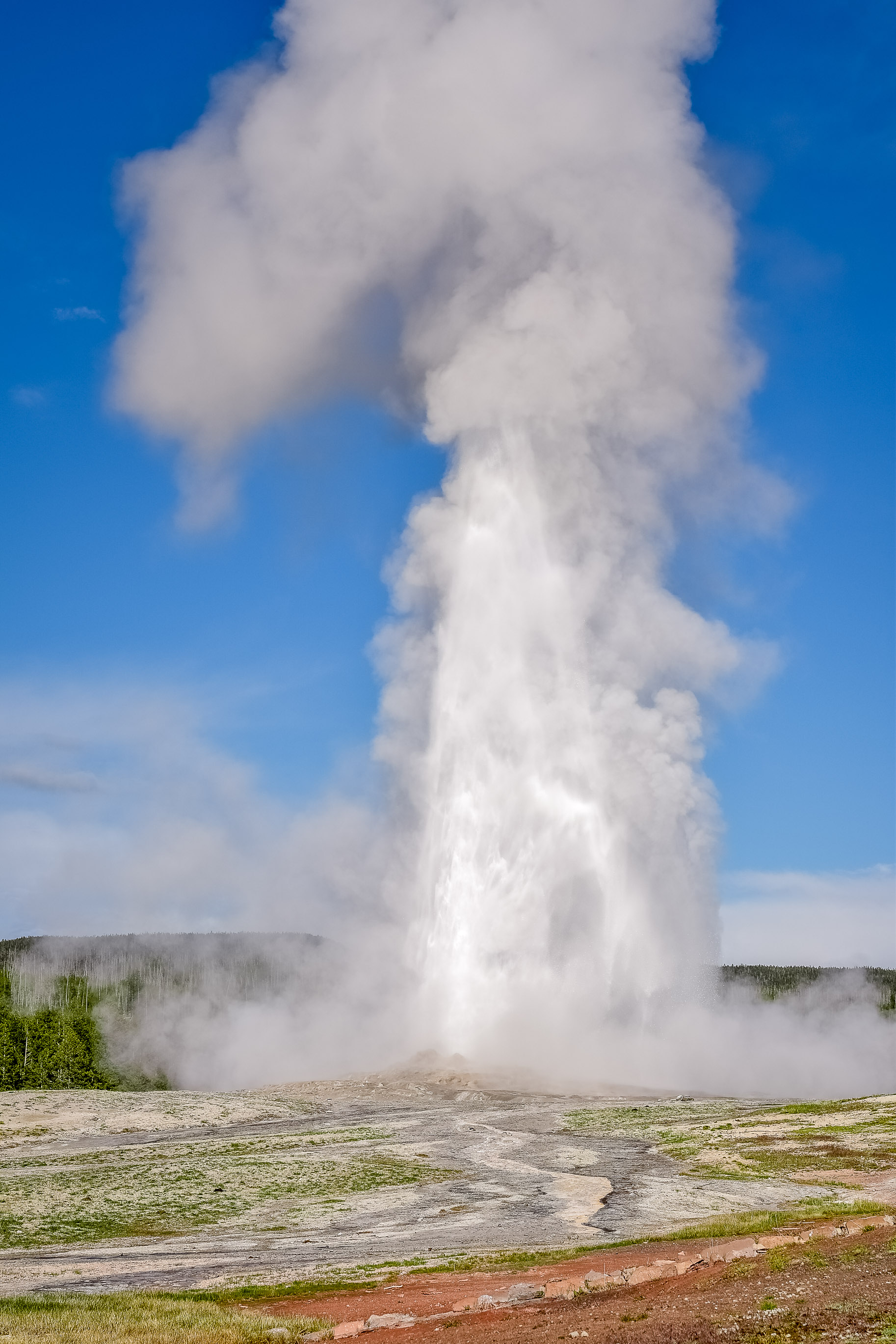 yellowstone, old faithful, geyser, 2015, united states